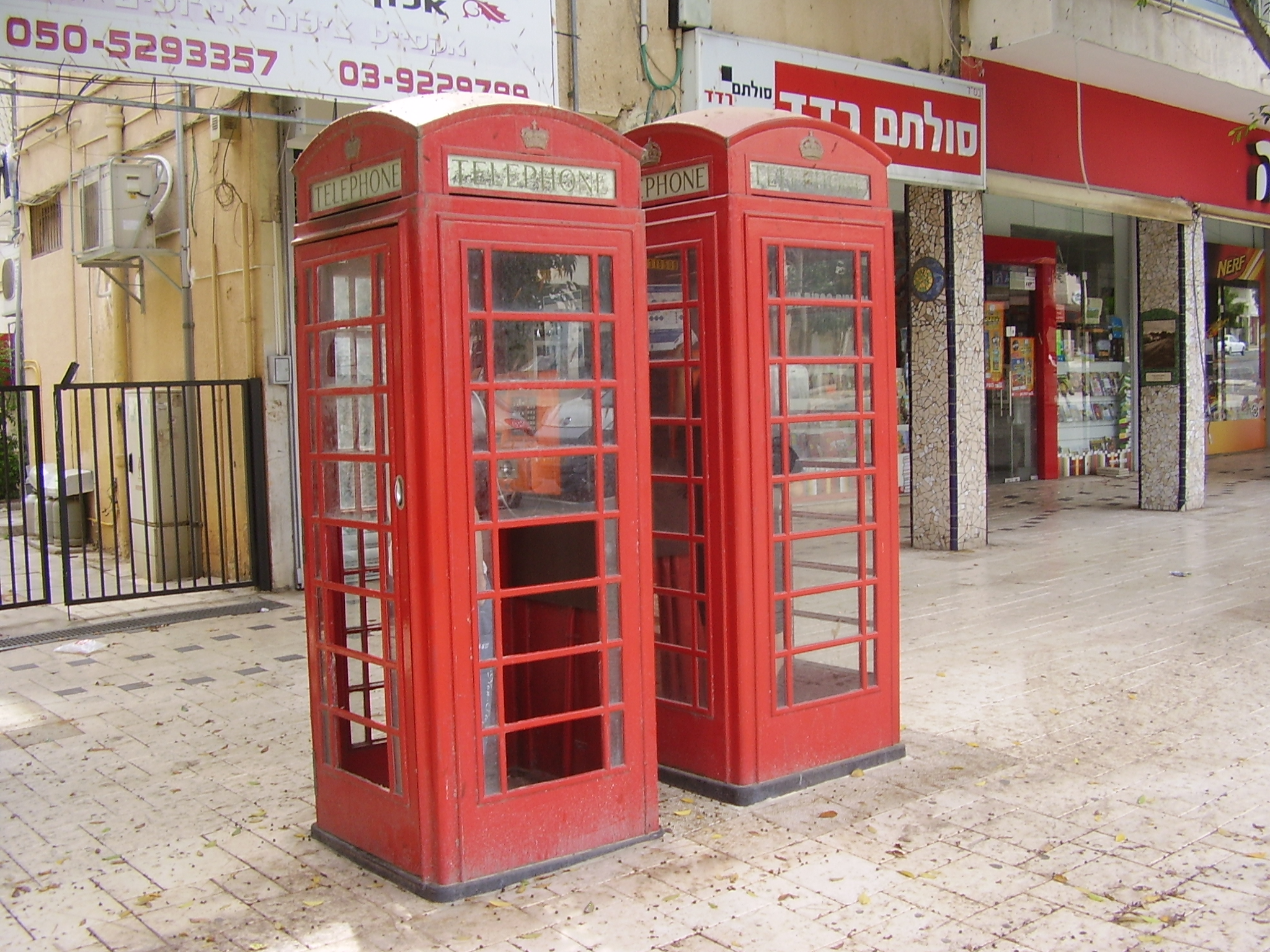 Old (British) Telephone Boxes in Petah Tikva, Israel